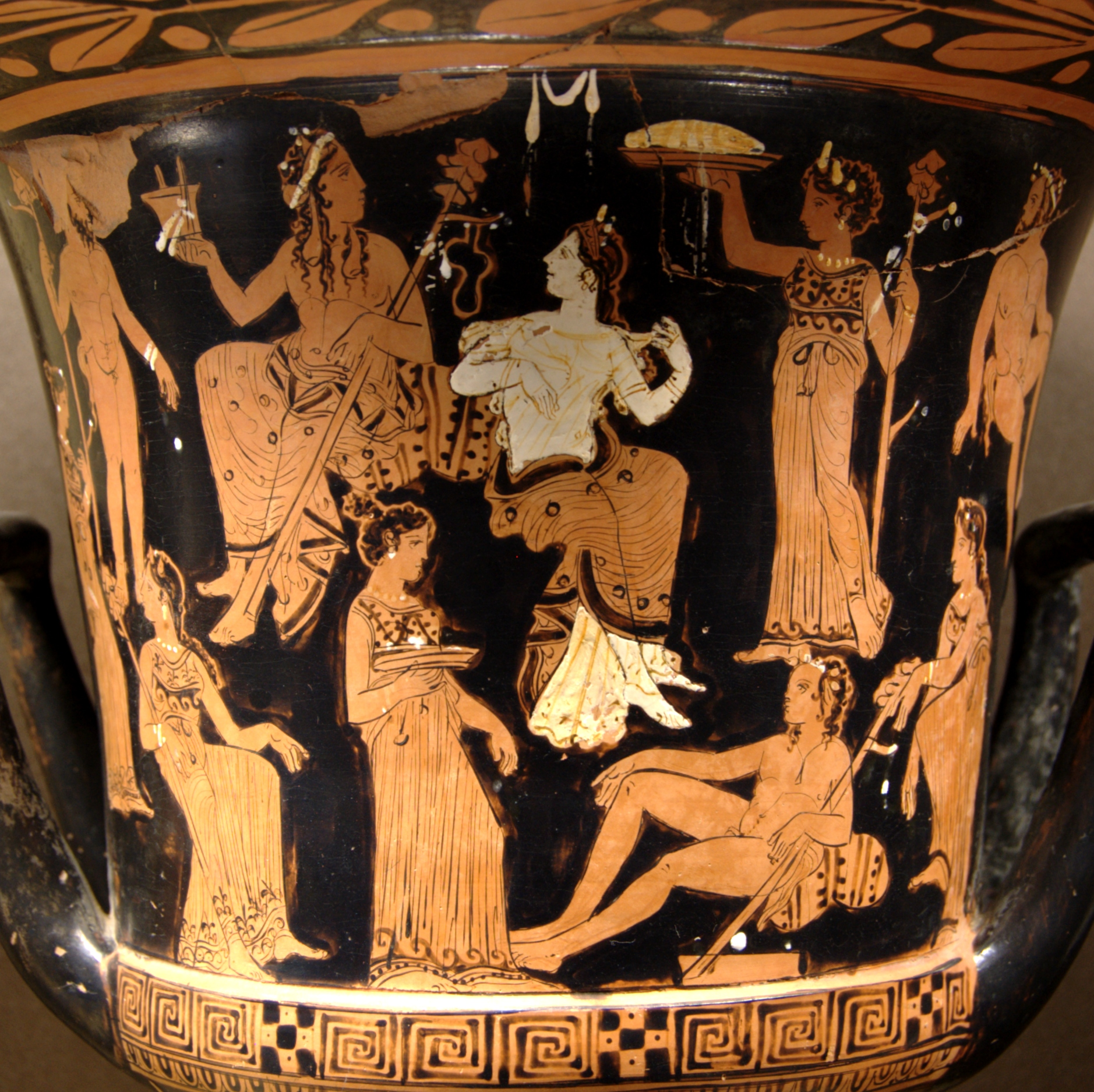 Dionysos, Ariadne, satyrs and maenads. Side A of an Attic red-figure calyx-krater, ca. 400-375 BC. From Thebes.